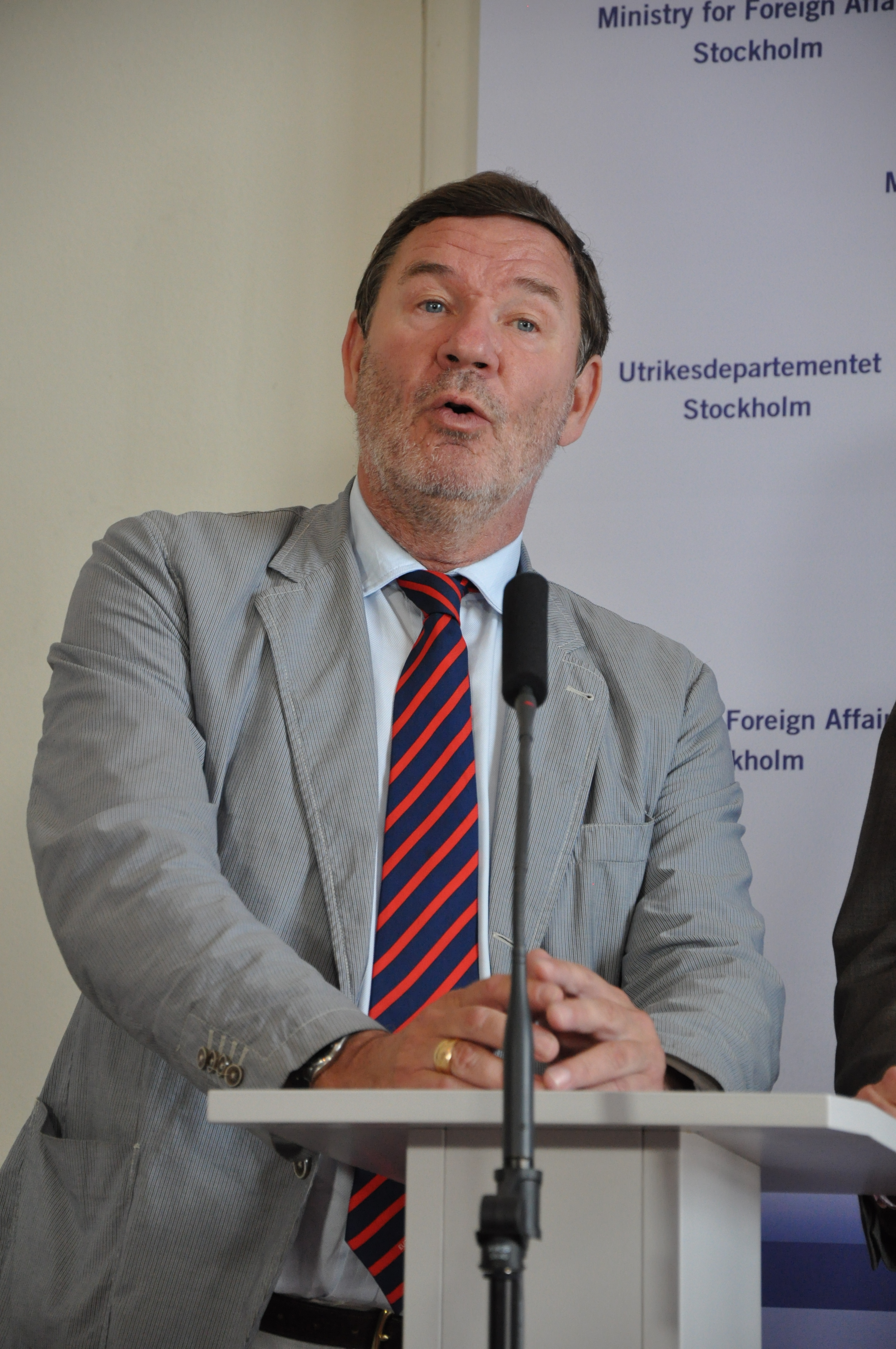 Krister Bringeus, "swedish senior civilian representative" in Mazar-e-Sharif, Afghanistan